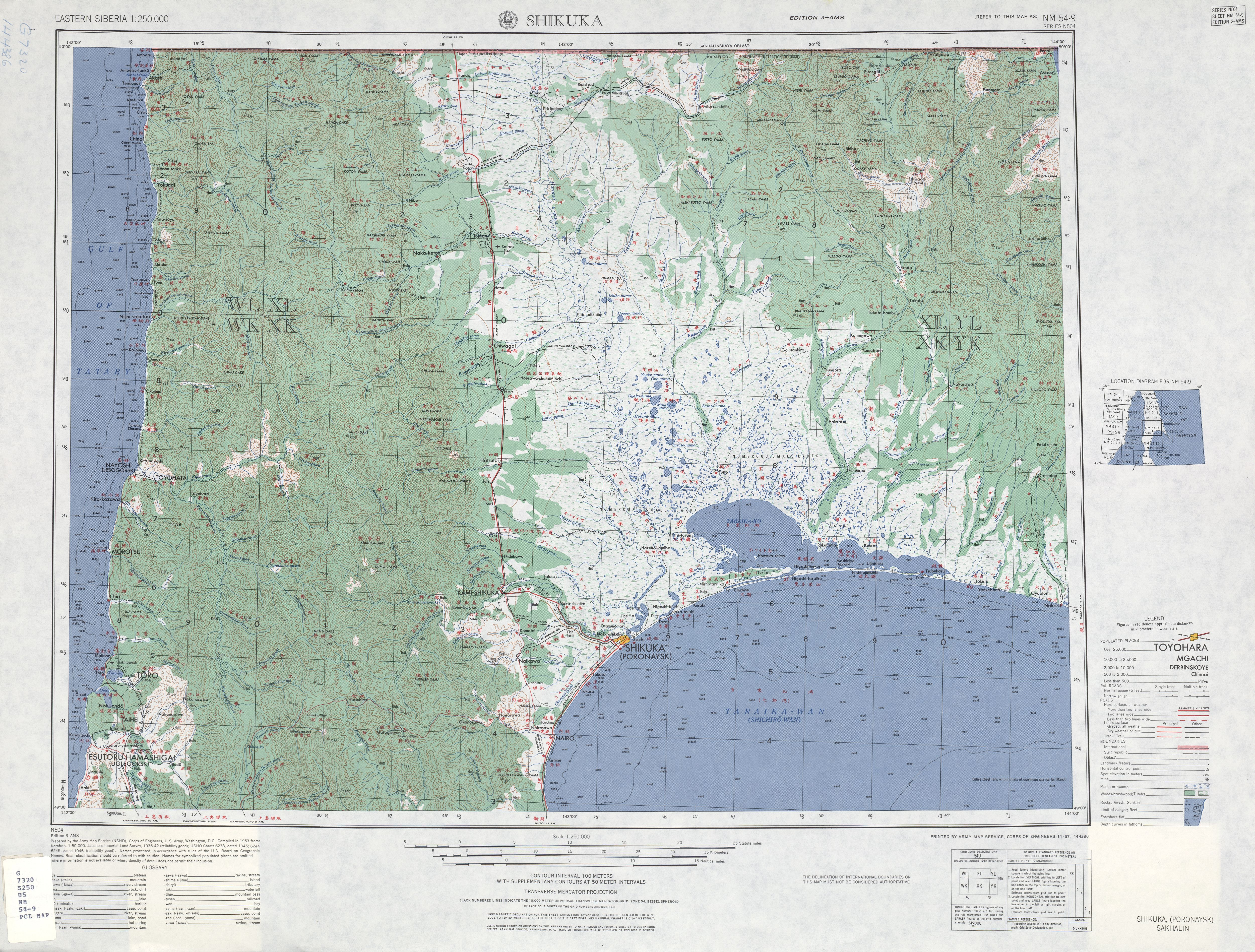 List from Eastern Siberia AMS Topographic Maps. Series N504, U.S. Army Map Service, 1947